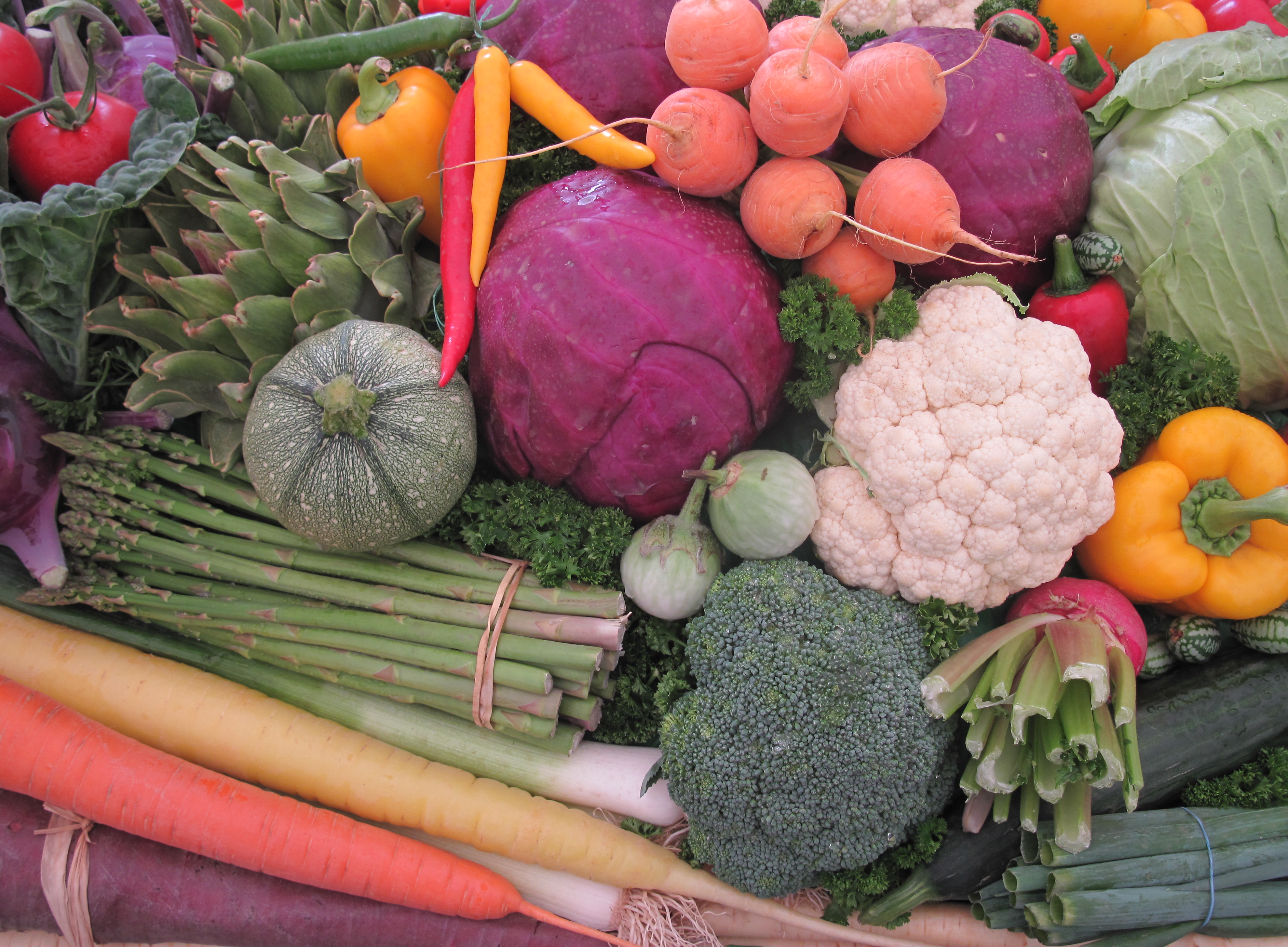 West Show, Jersey, 10-11 July 2010